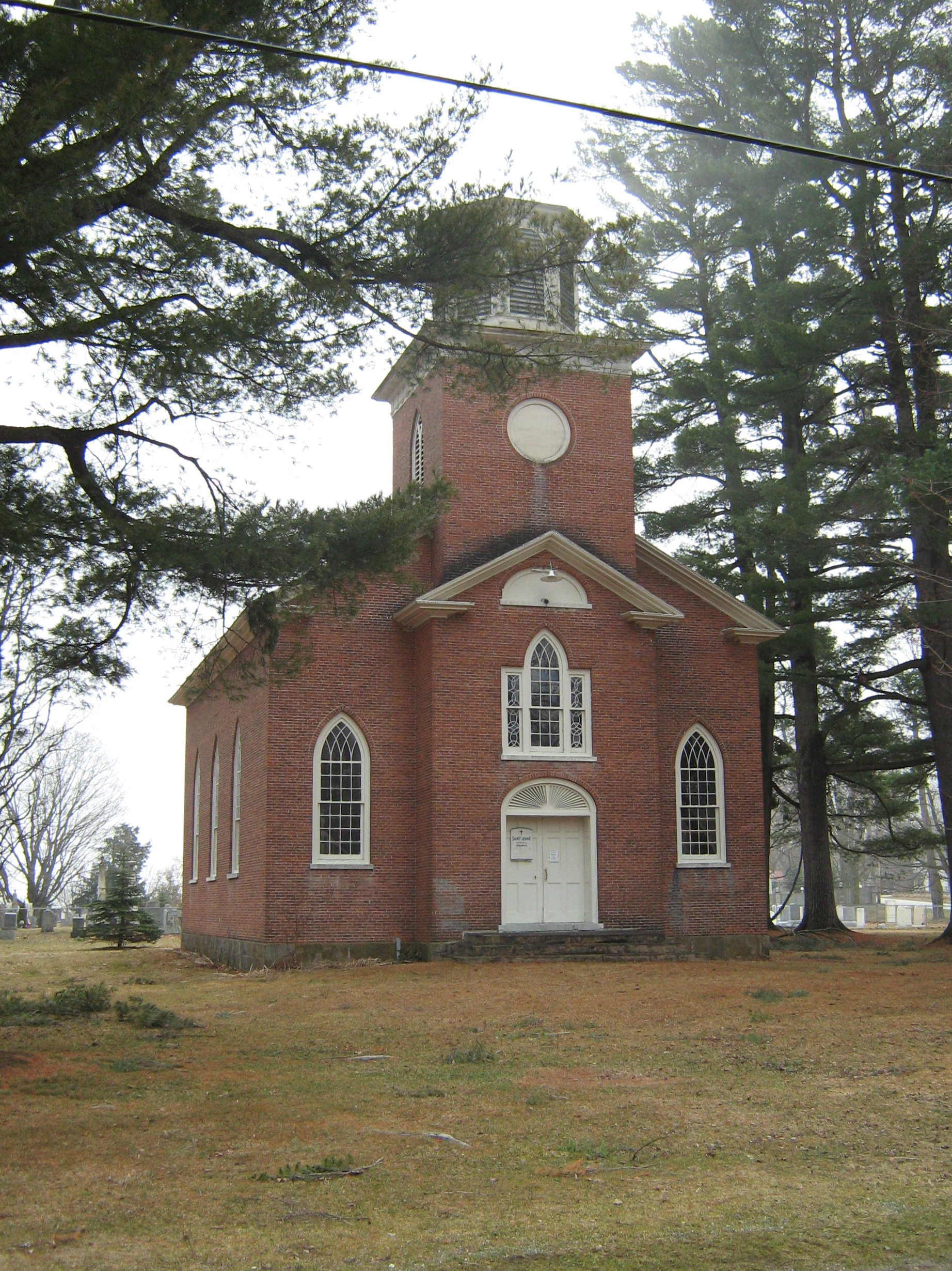 St. John's Episcopal Church in Highgate Falls, Vermont